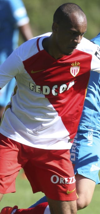 Fábio Henrique Tavares